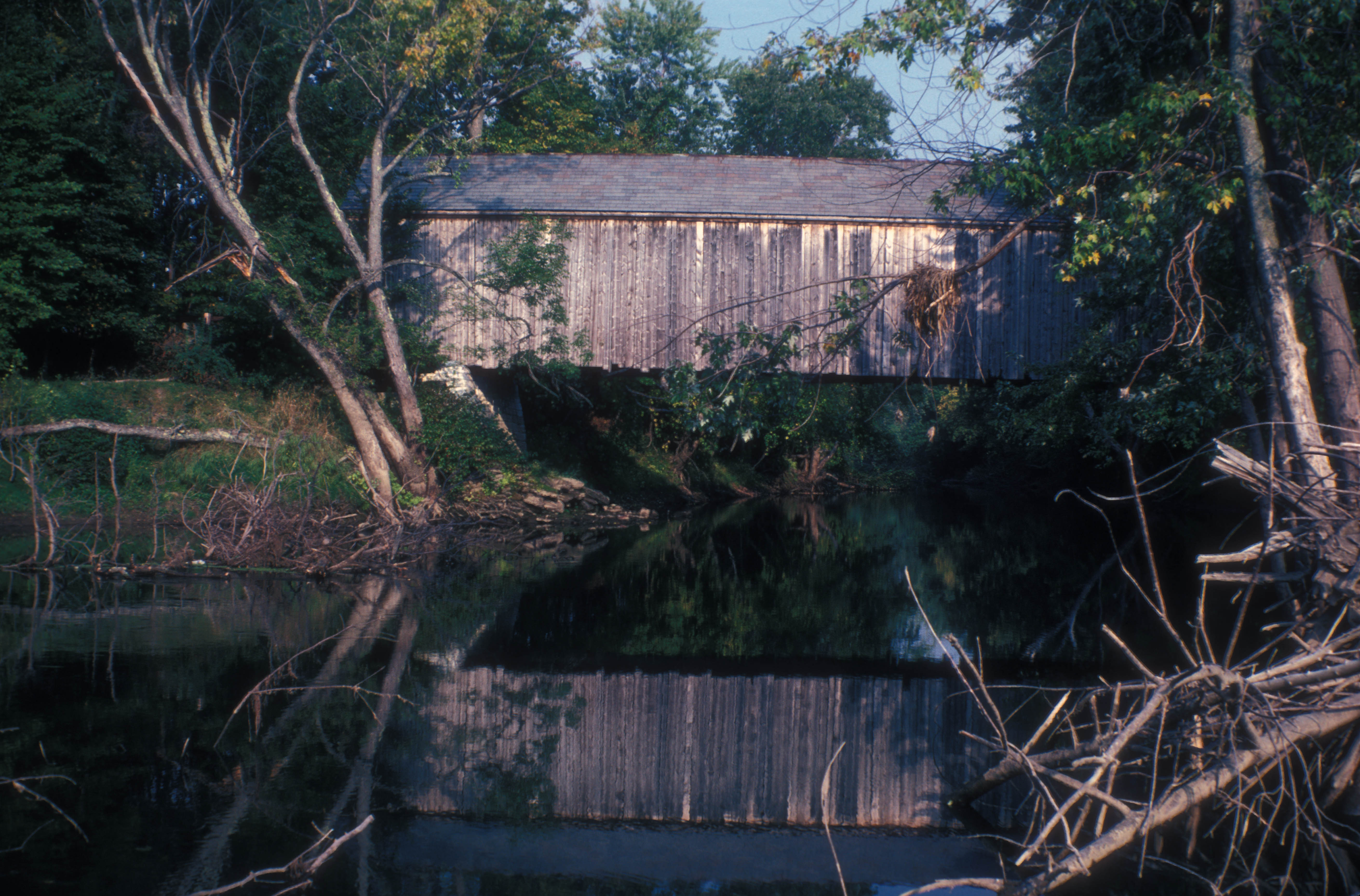 1840 TOWN, 135’ OVER OTTER CREEK